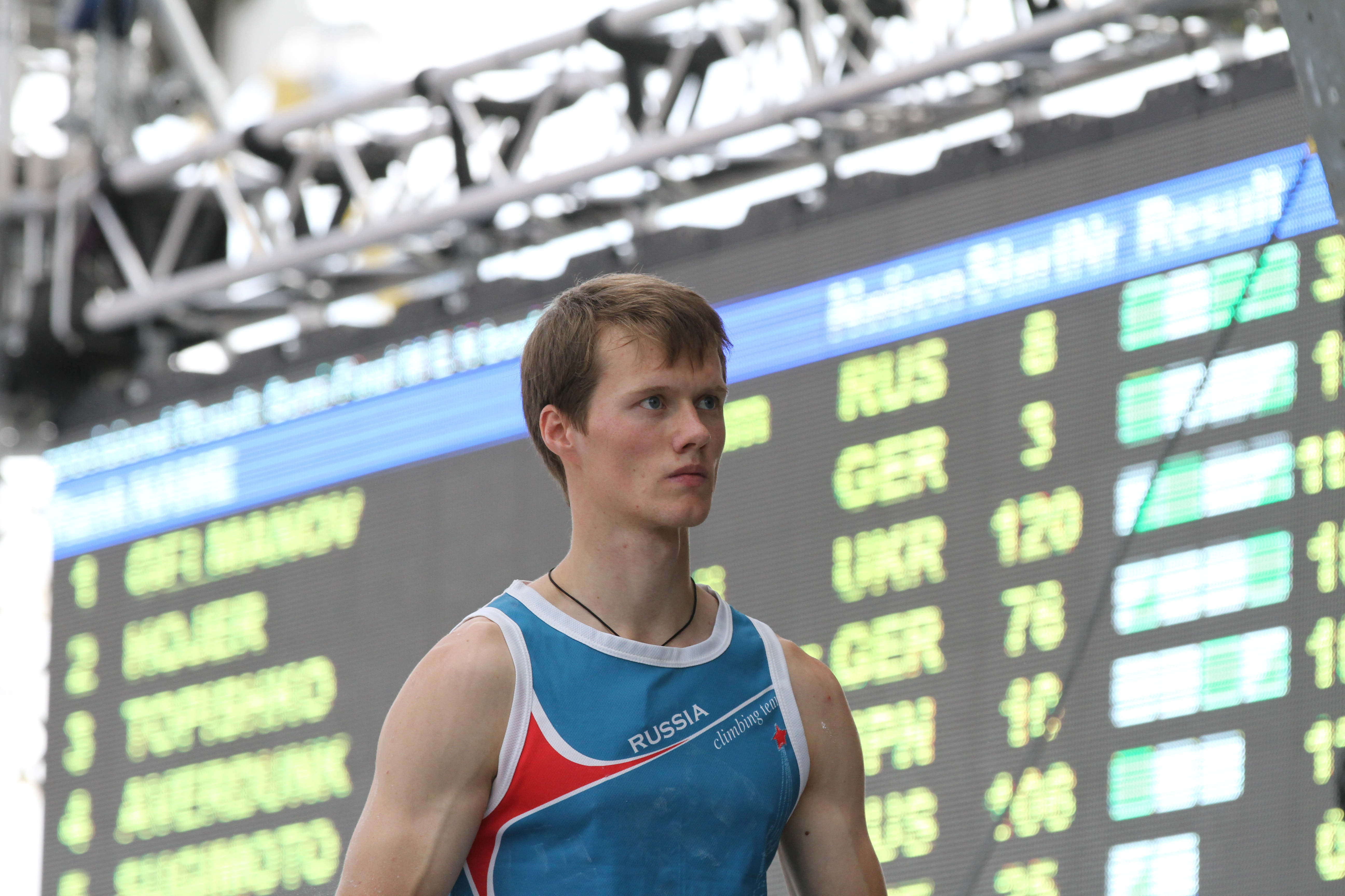 IFSC Boulder Worldcup, Munich 2015. Alexey Rubtsov (RUS)